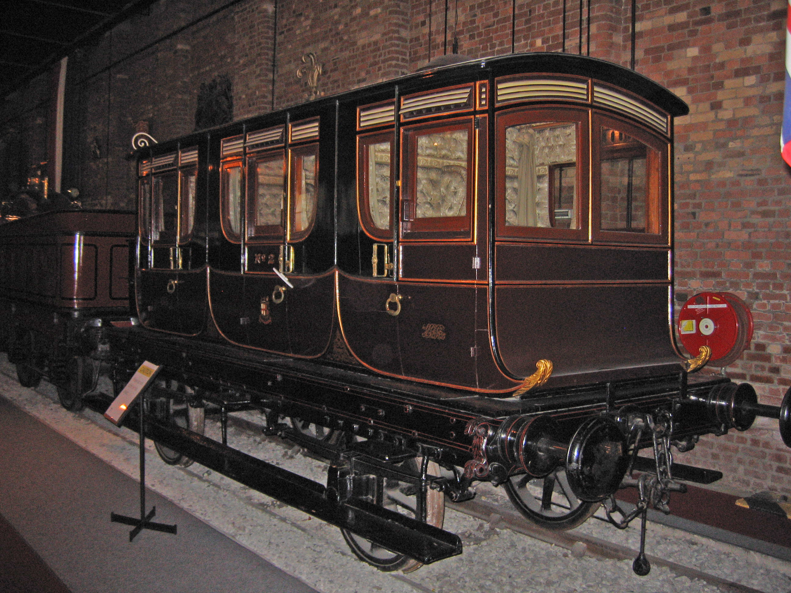 Saloon of Queen Adelaide